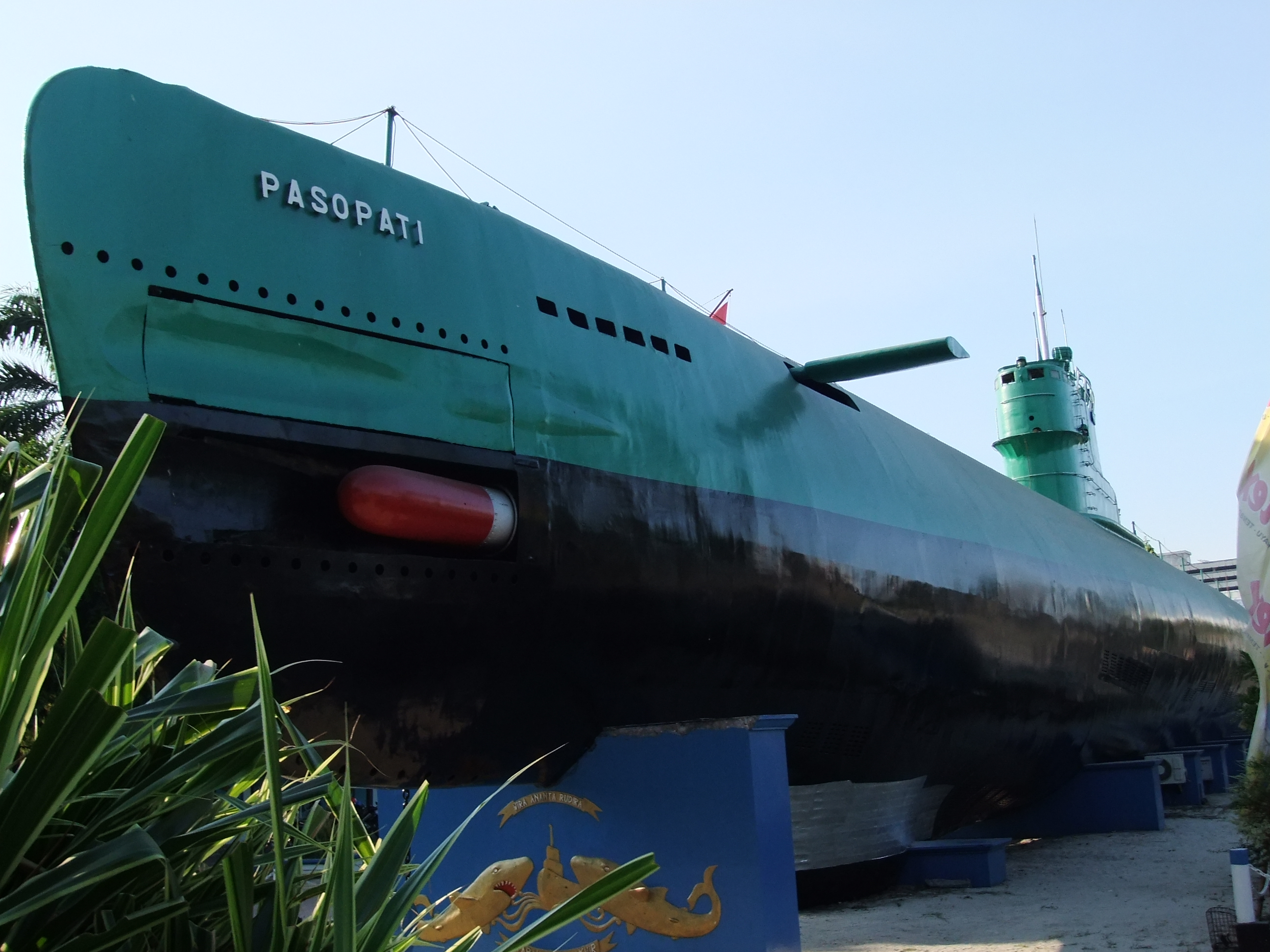 Submarine Monument (KRI Pasopati), Surabaya, Indonesia